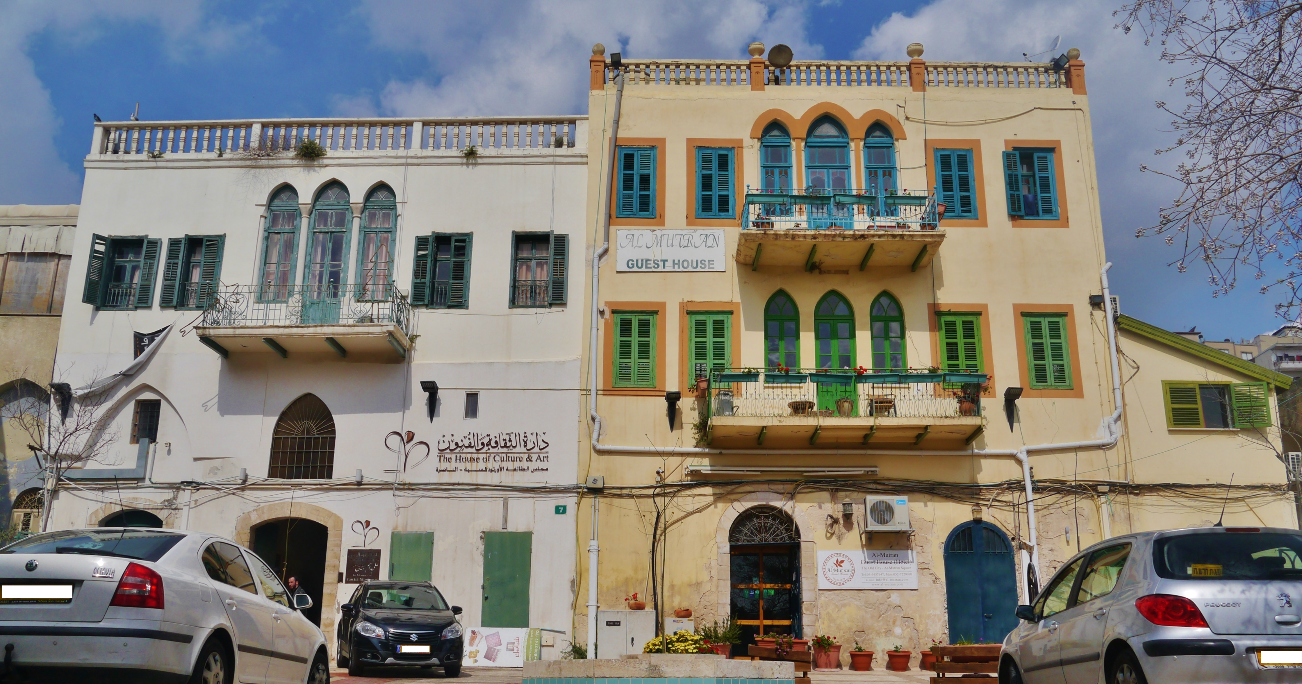 Old city of Nazareth, Israel